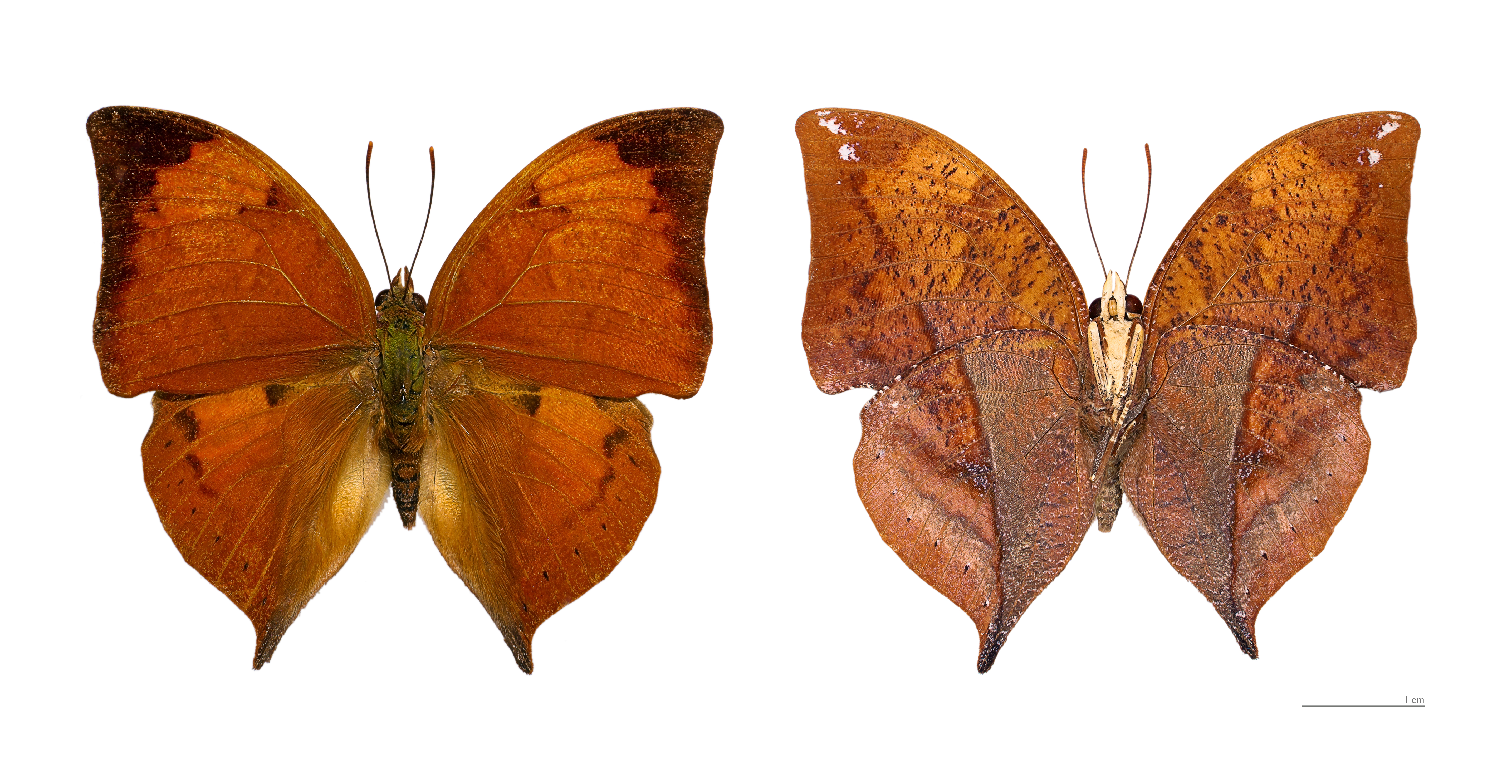 ♂ - Two views of same specimen Locality : Route de Kaw, PK40, French Guiana.